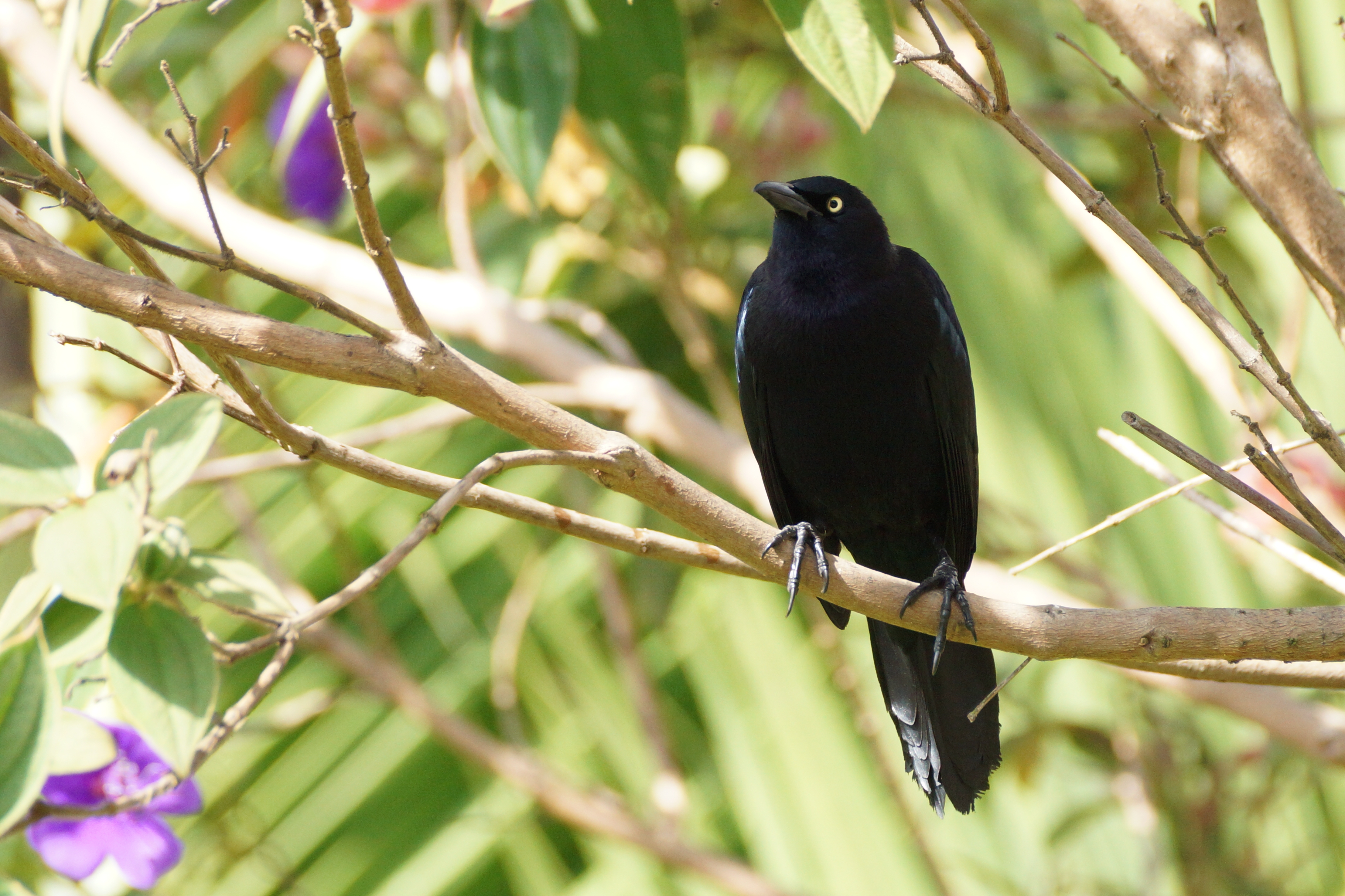 Quiscalus lugubris, male at 2570 m of altitude